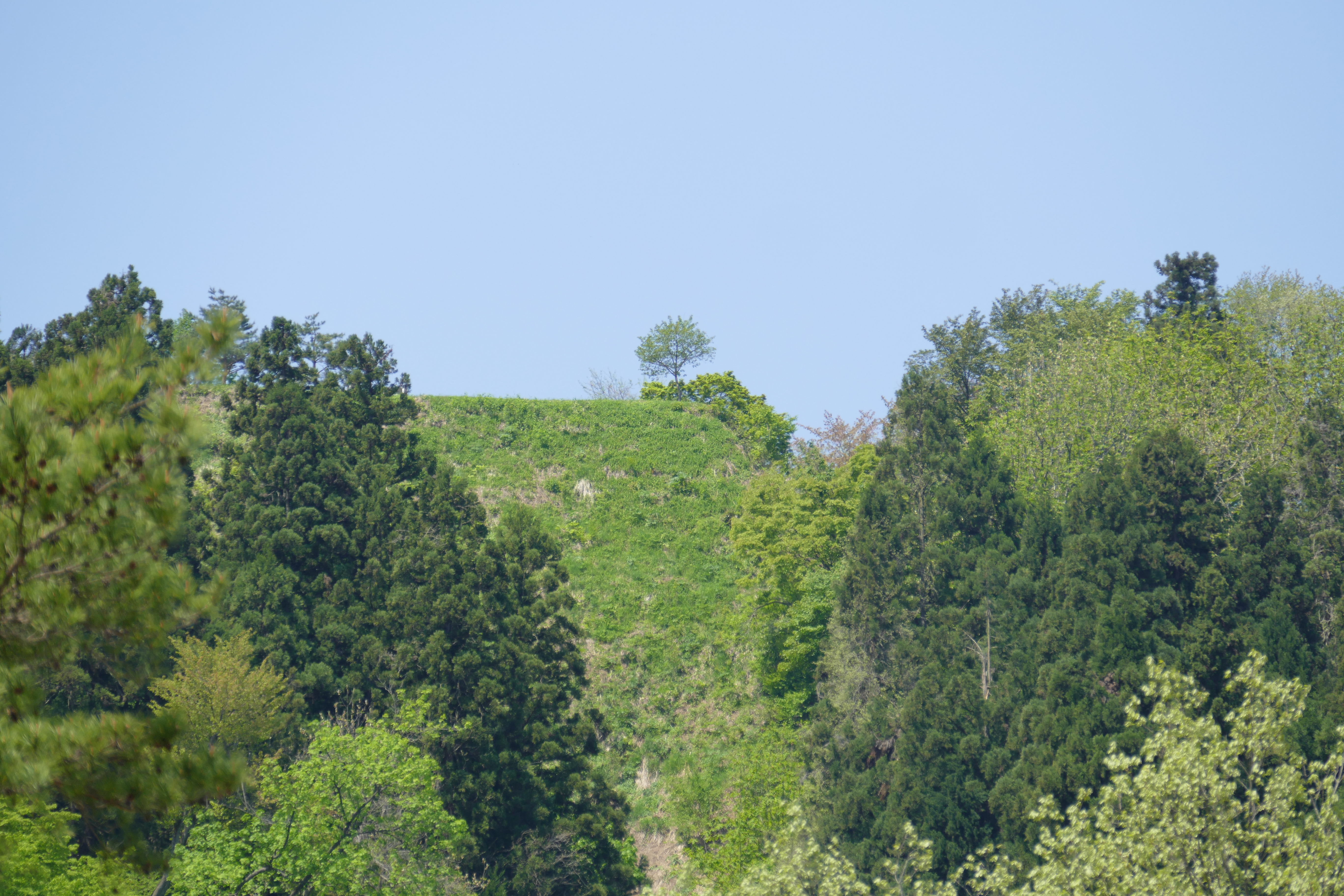 View of Tochio Castle Honmaru ruins from Akiba Park, Nagaoka, Niigata Prefecture, Japan